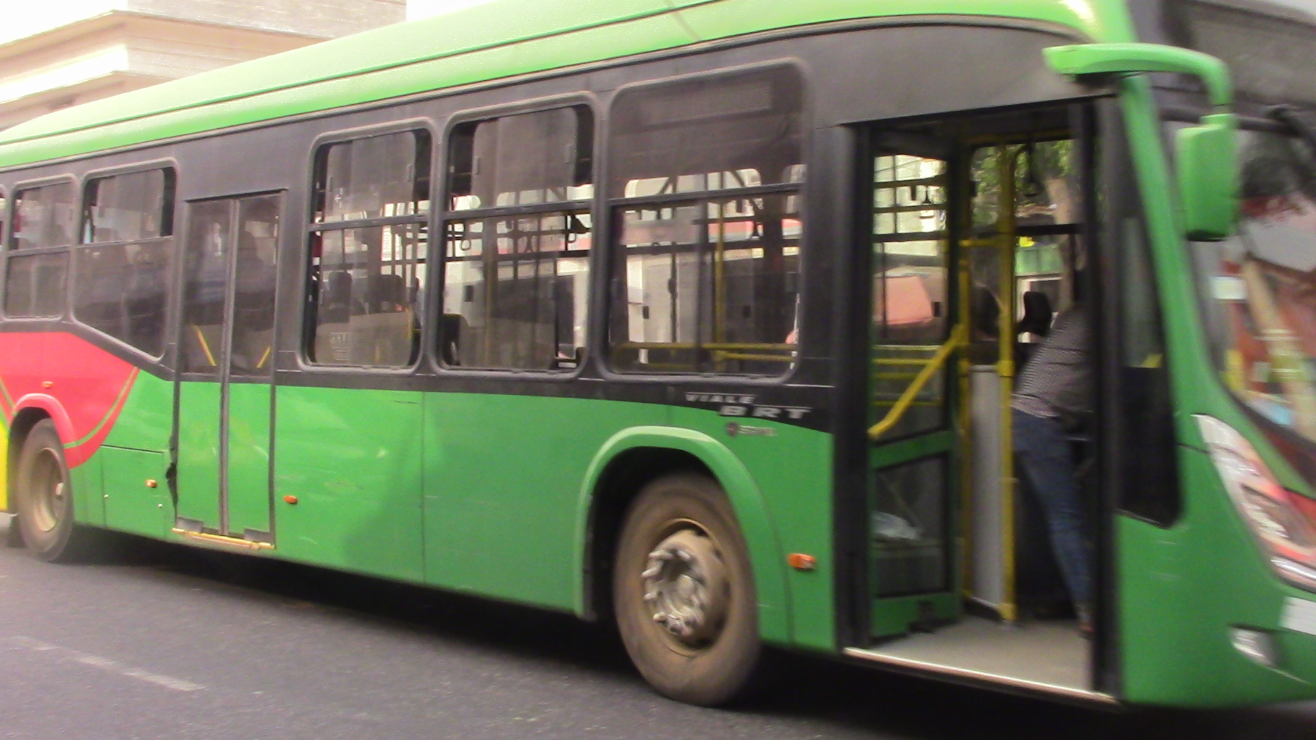 Bus system in Accra called Ayalolo This is an image with the theme "Africa on the Move or Transport" from: Ghana